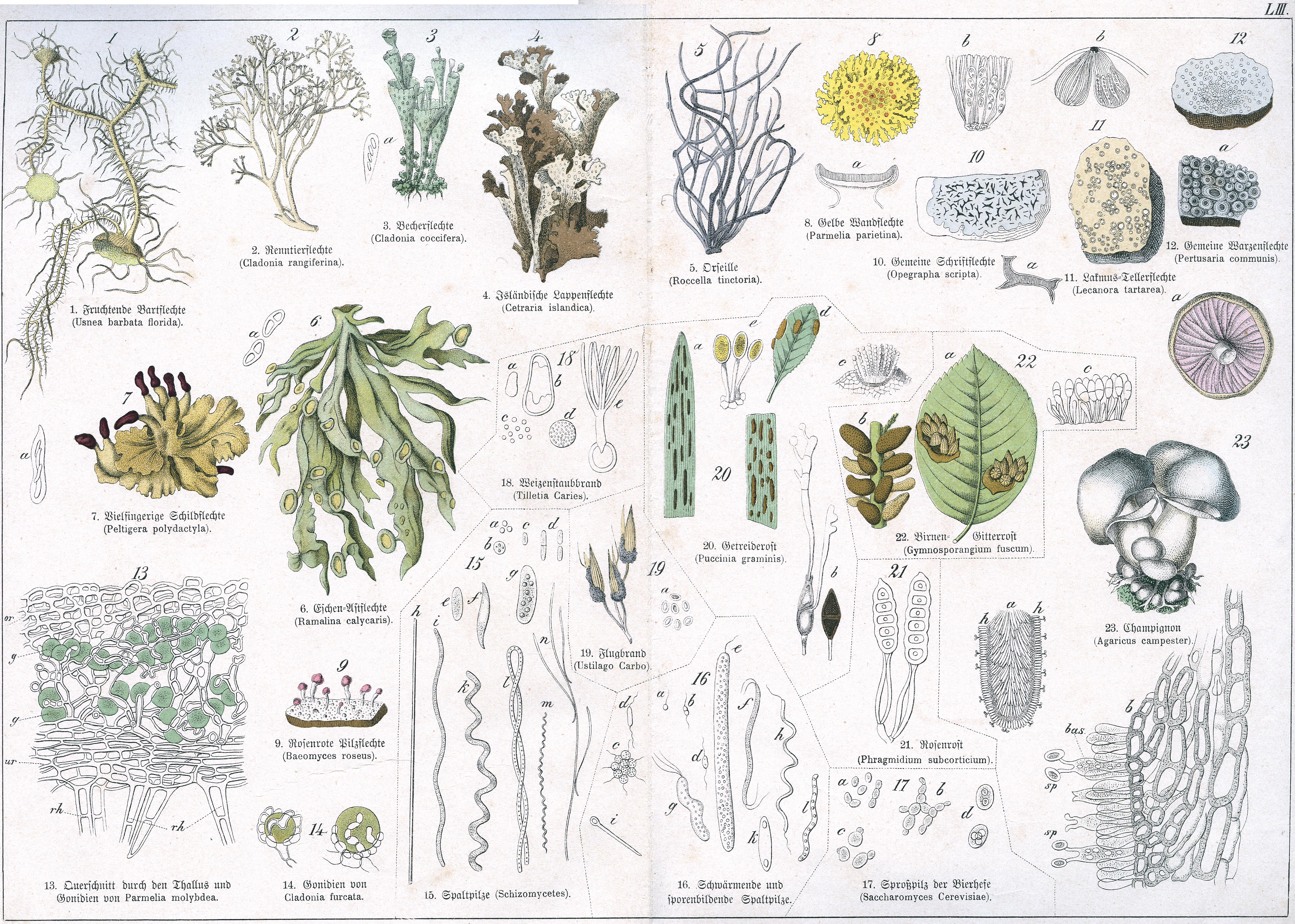 illustration from «Naturgeschichte des Pflanzenreichs», table LIII. Illustrations of the following organisms: Usnea barbata florida = Usnea florida Cladonia rangiferina Cladonia coccifera Cetraria islandica Roccella tinctoria Parmelia parietina = Xanthoria parietina Opegrapha scripta = Graphis scripta Lecanora tartarea = Ochrolechia tartarea Pertusaria communis = Pertusaria pertusa Peltigera polydactyla = Peltigera polydactylon Ramalina calycaris = Ramalina calicaris Baeomyces roseus = Dibaeis baeomyces Cladonia furcata Parmelia molybdea = Parmelia molybdina? Agaricus campester Saccharomycese cerevisiae Phragmidium subcorticium Tilletia caries Puccinia graminis Ustilago carbo Gymnosporangium fuscum